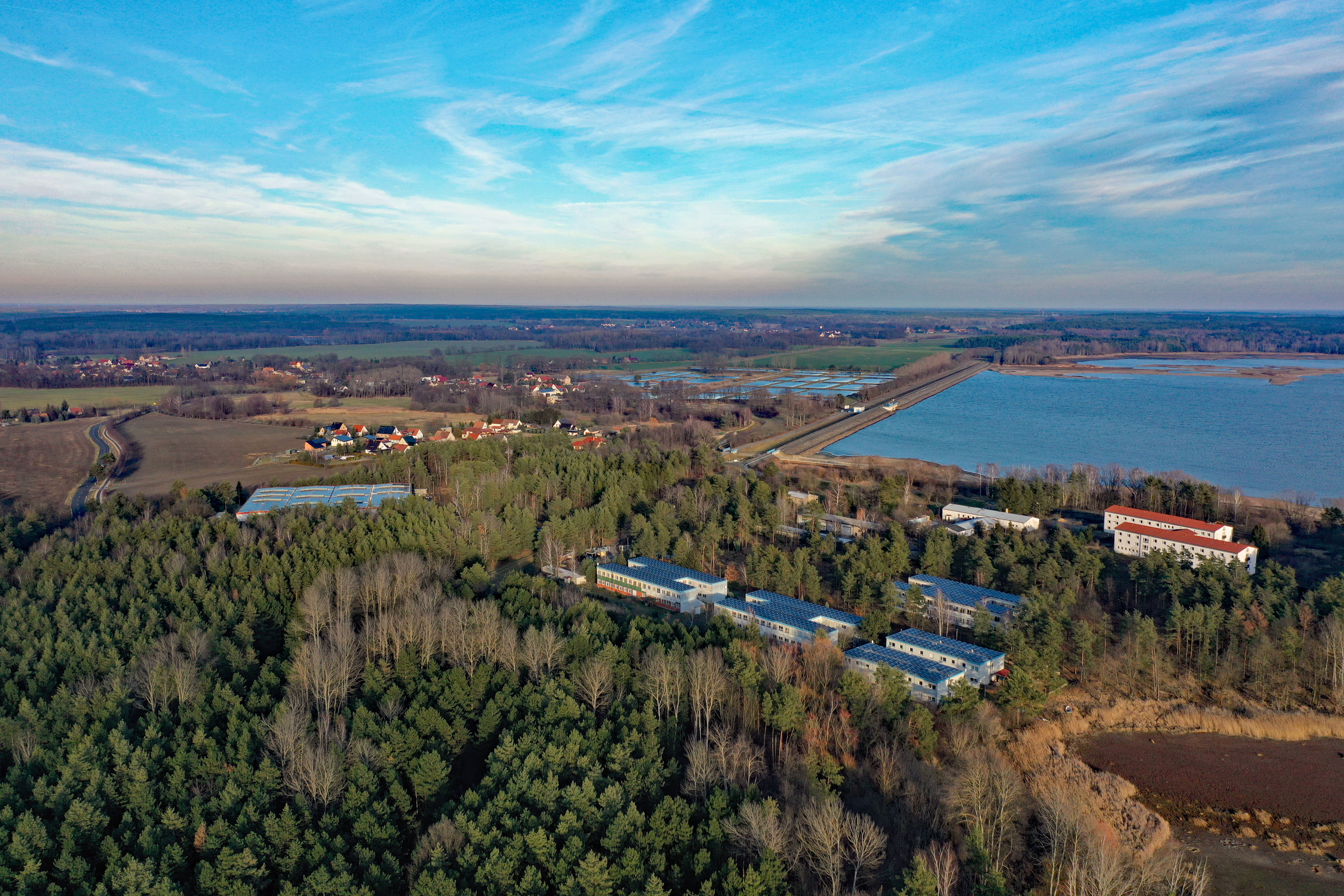 Sproitz (Quitzdorf am See, Saxony, Germany)